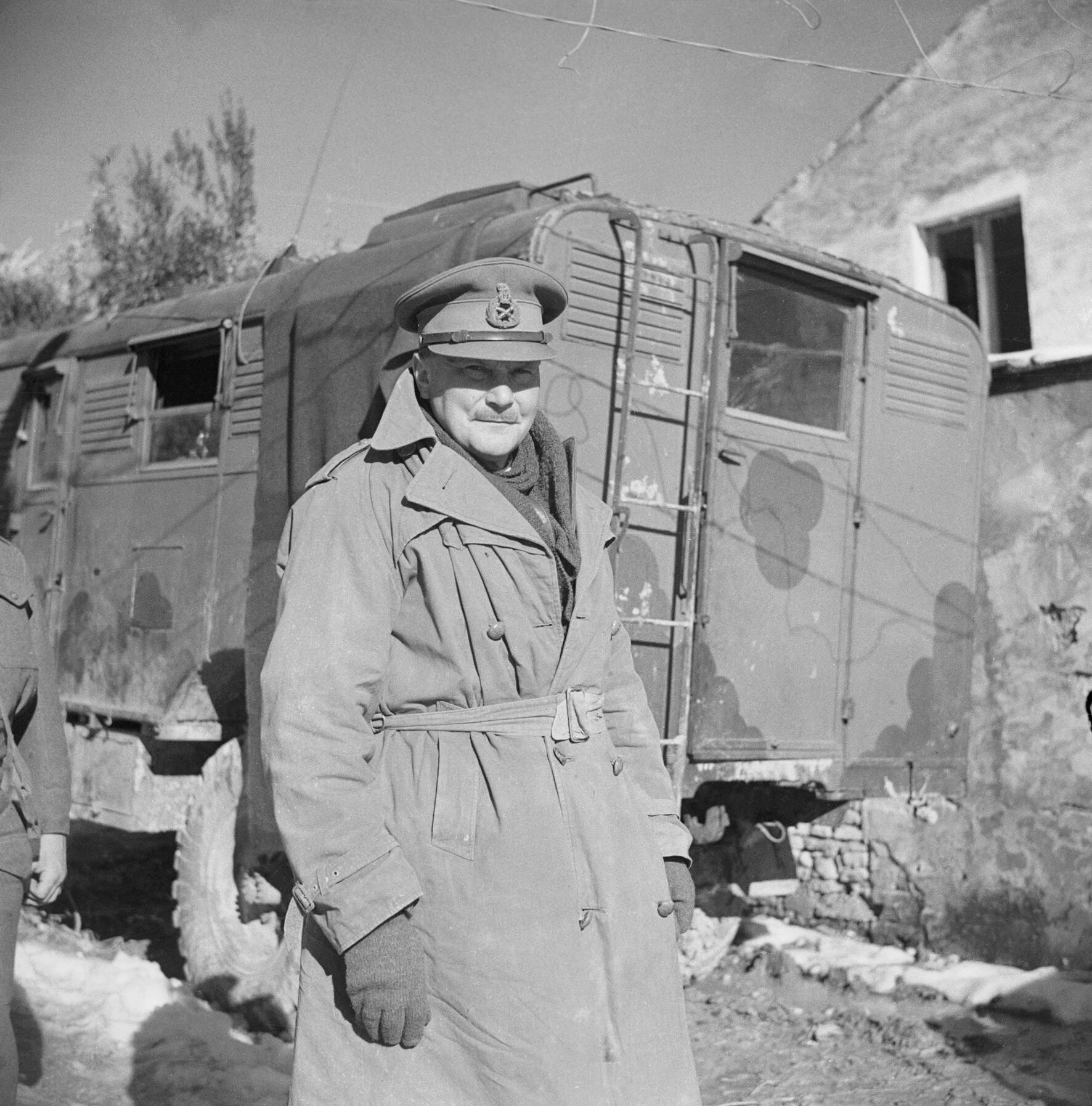 IWM caption : THE BATTLE OF CASSINO, JANUARY-MAY 1944. The Commander of the Indian and New Zealand Divisions at Cassino, Lieutenant General Sir Bernard Freyberg VC. Freyberg also commanded the British and Commonwealth troops on Crete.